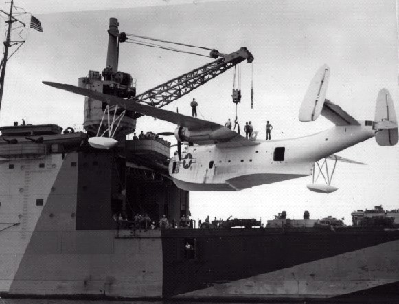 A U.S. Navy Martin PBM-3 Mariner of patrol bomber squadron VPB-210 is being hoisted aboard the seaplane tender USS Albemarle (AV-5) at Guantanamo Bay, Cuba, 5 January 1945.